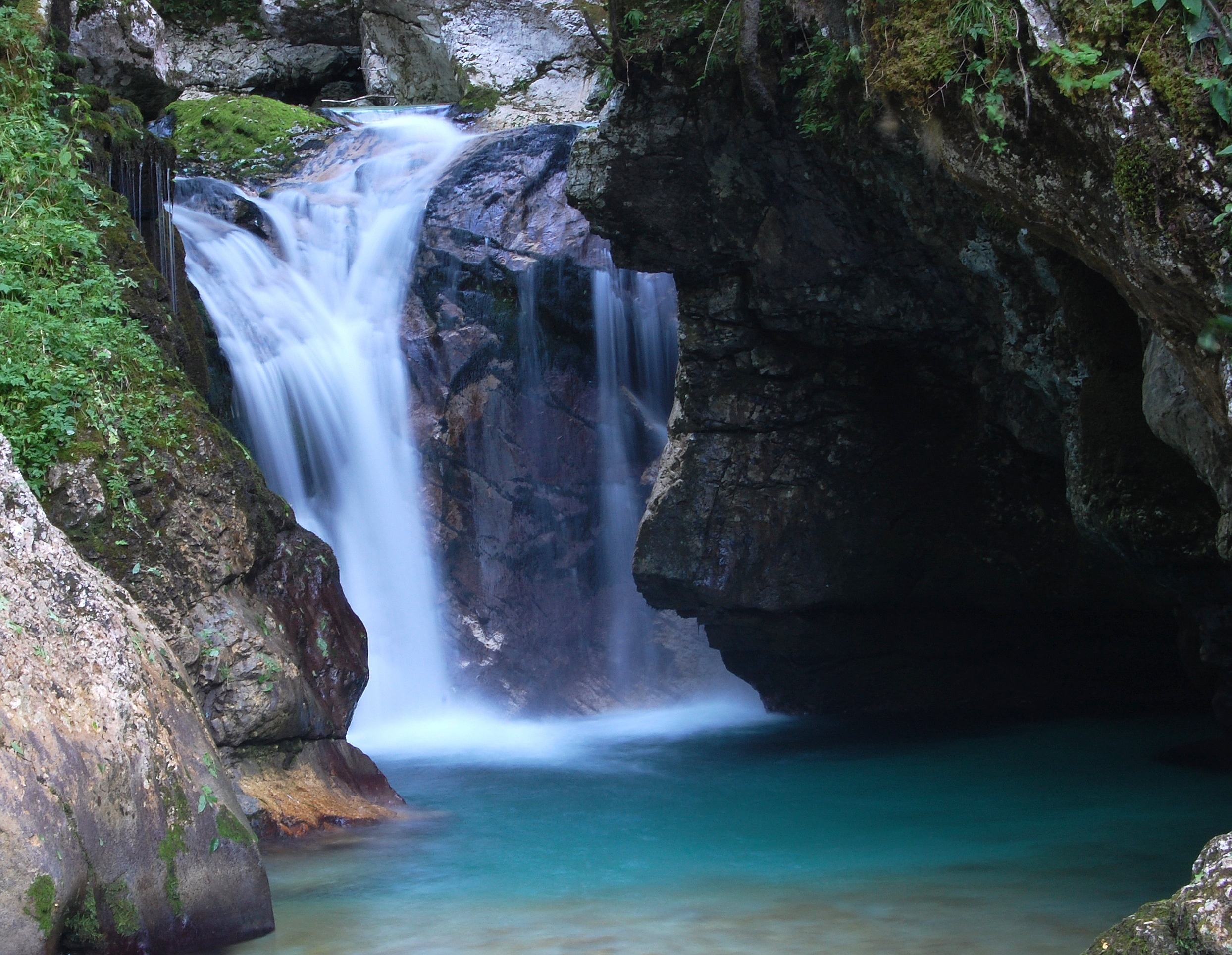 Waterfall near Lepena, Slovenia